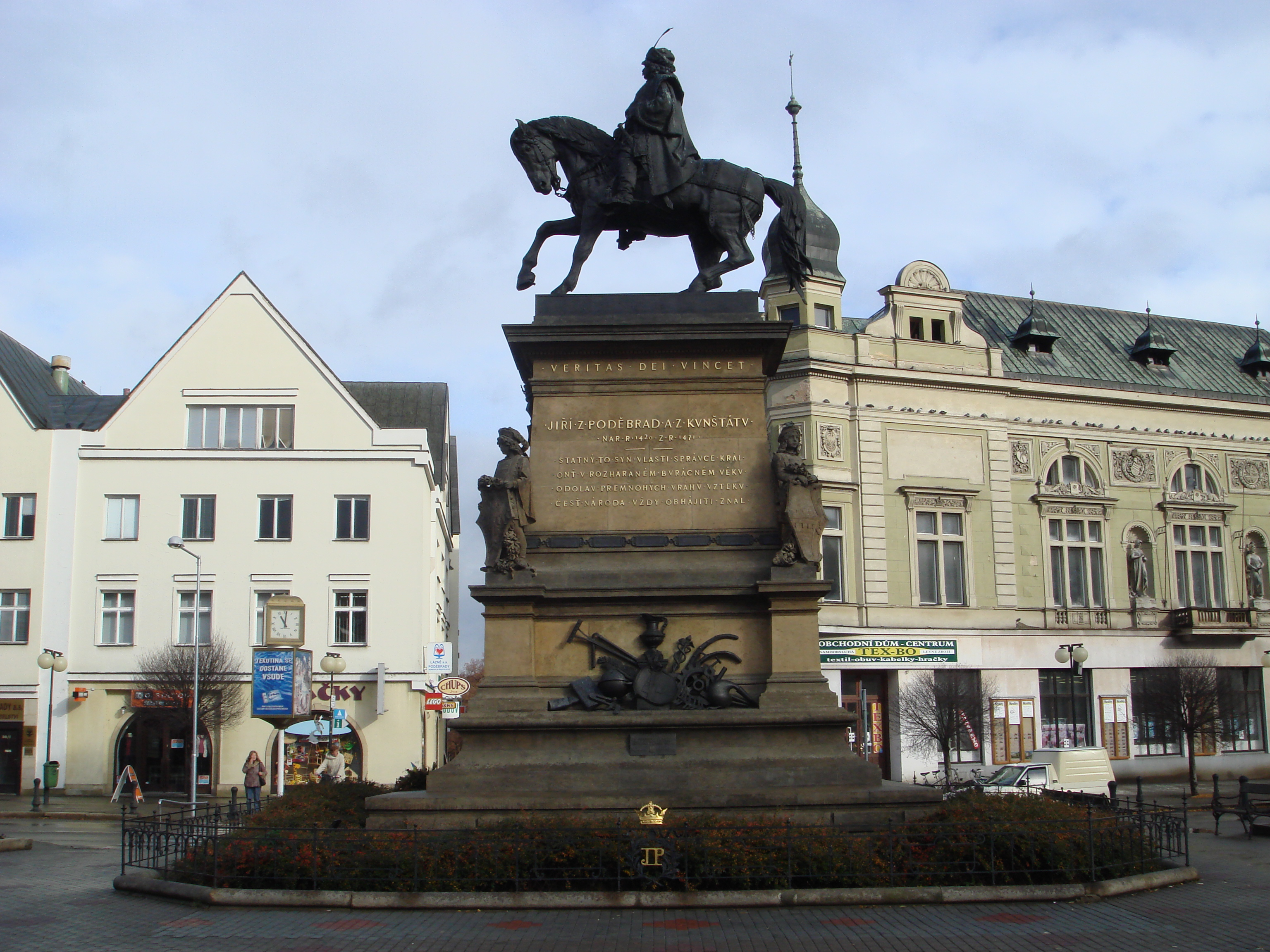 Statue of the king Jiří z Poděbrad in Poděbrady (Central Bohemian Region, Czechia).